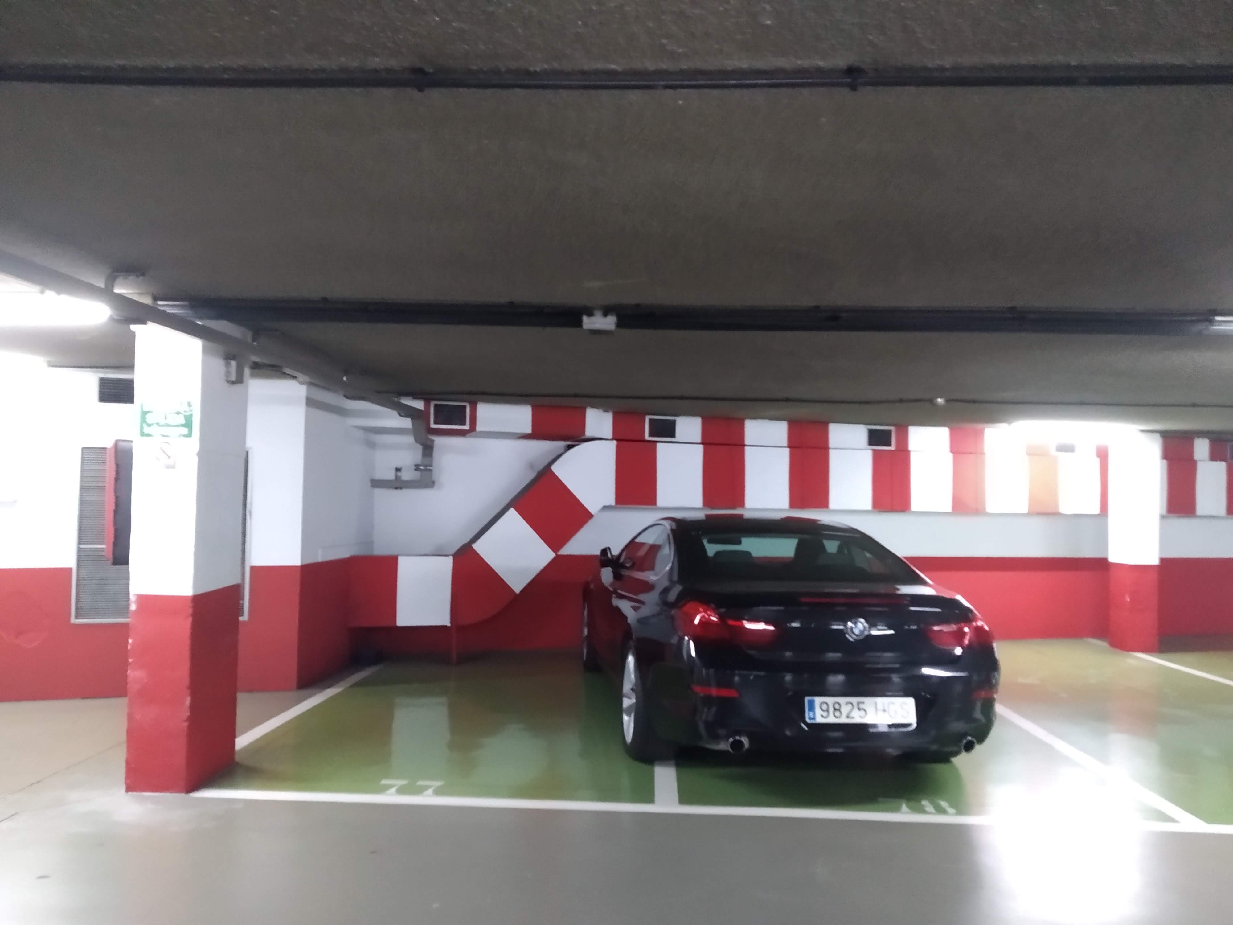 Illegal parking in a supermarket parking lot, Donostia, the Basque Country